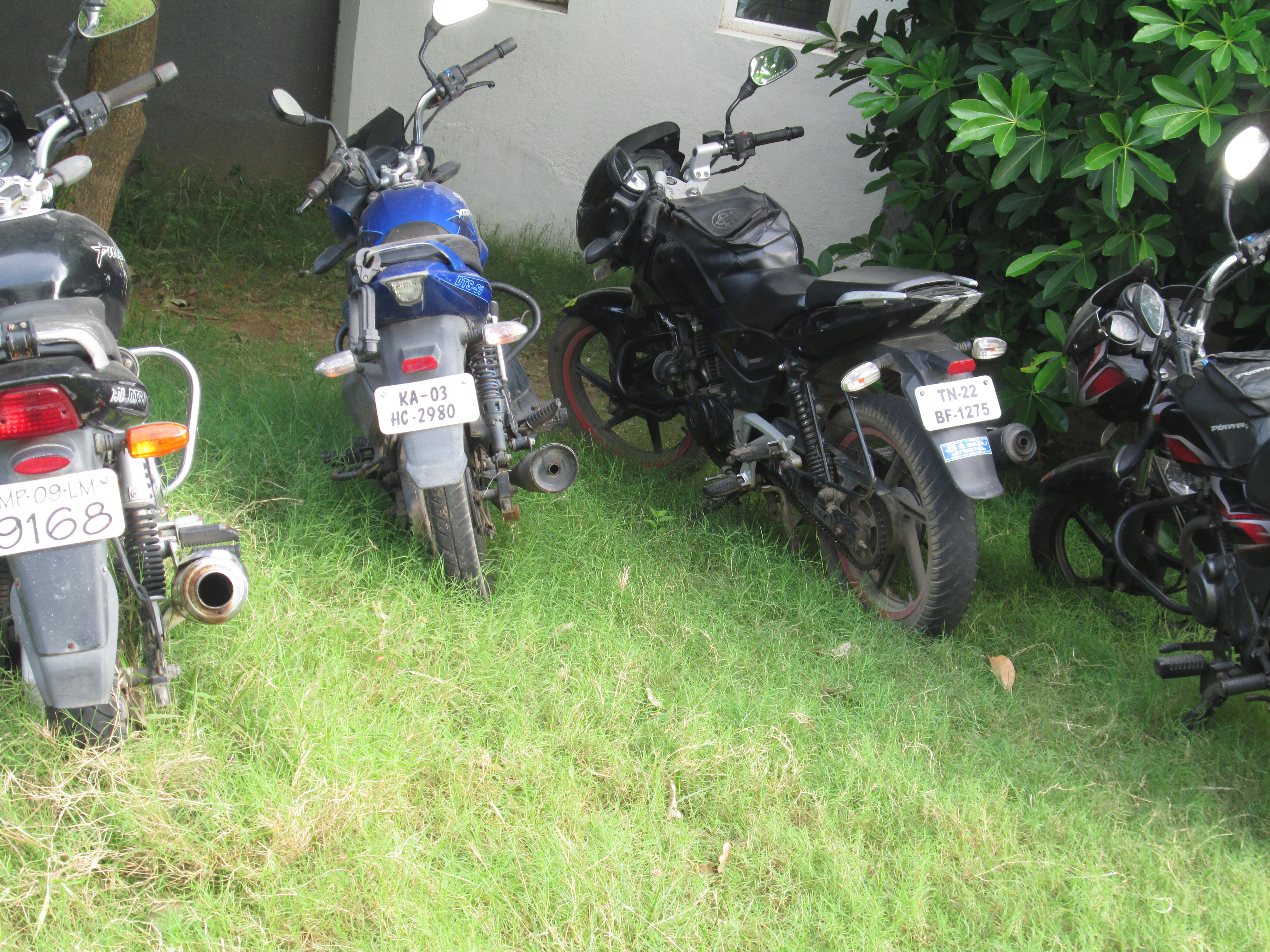 Registration code MP is for Madhya Pradesh, KA is for Karnataka and TN is for Tamil Nadu.